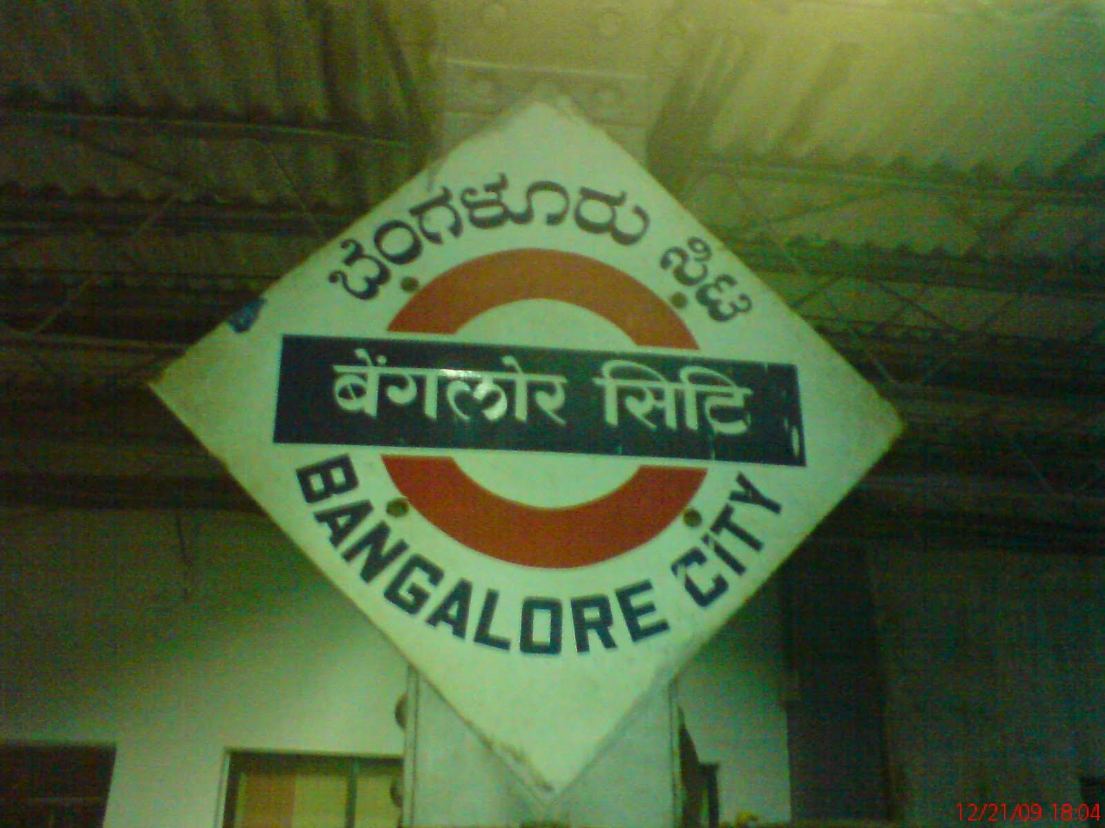 Bangalore City Railway station